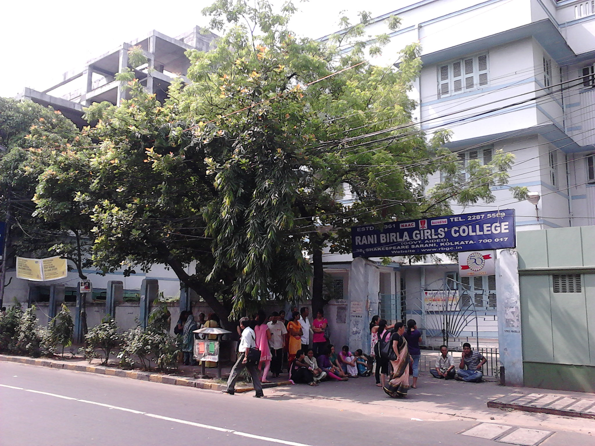 Filled-up form submission queue of students and their guardians for admission in various undergraduate degree courses, Kolkata.